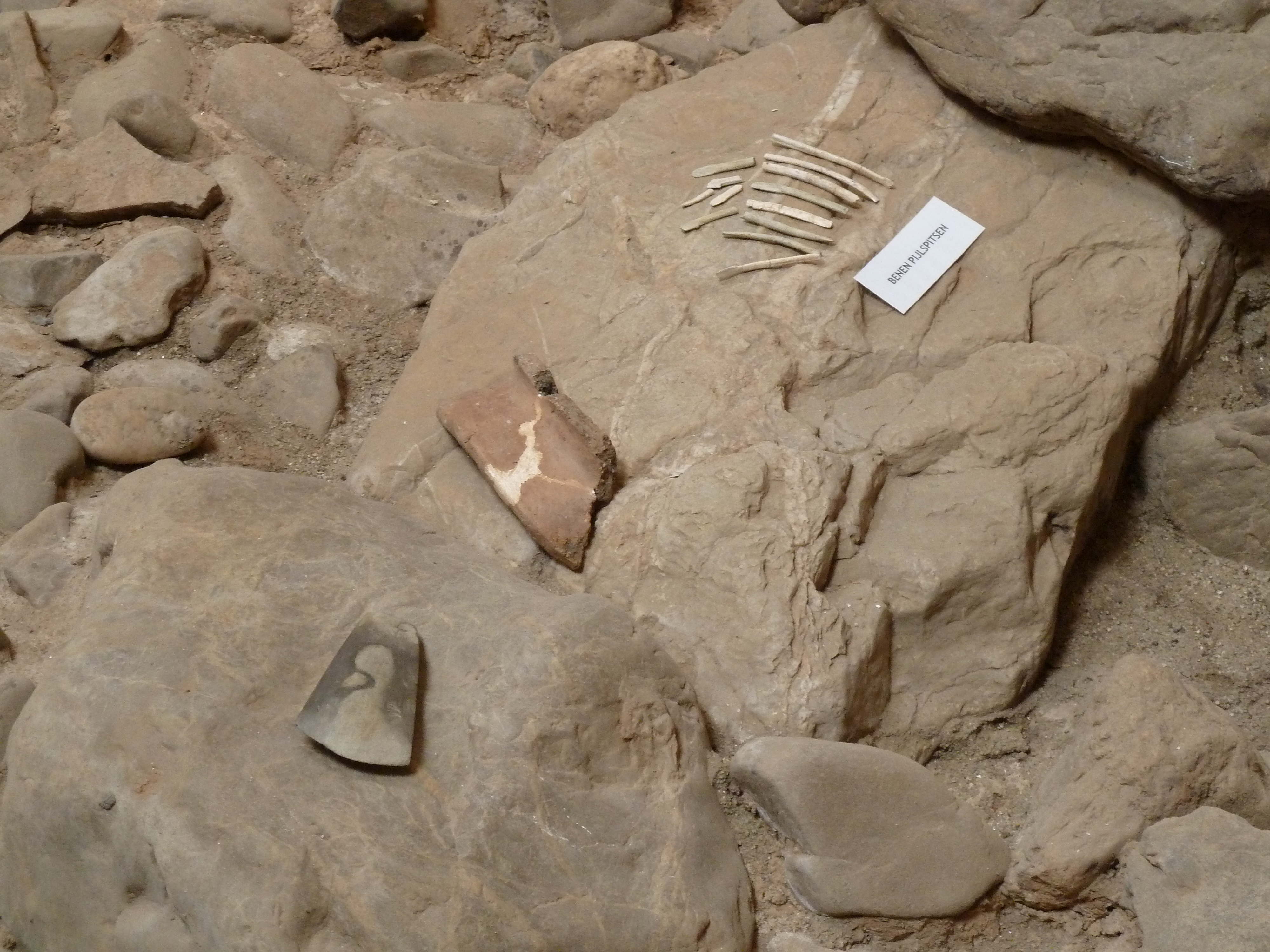 Burial chamber of Stein, Limburg, the Netherlands